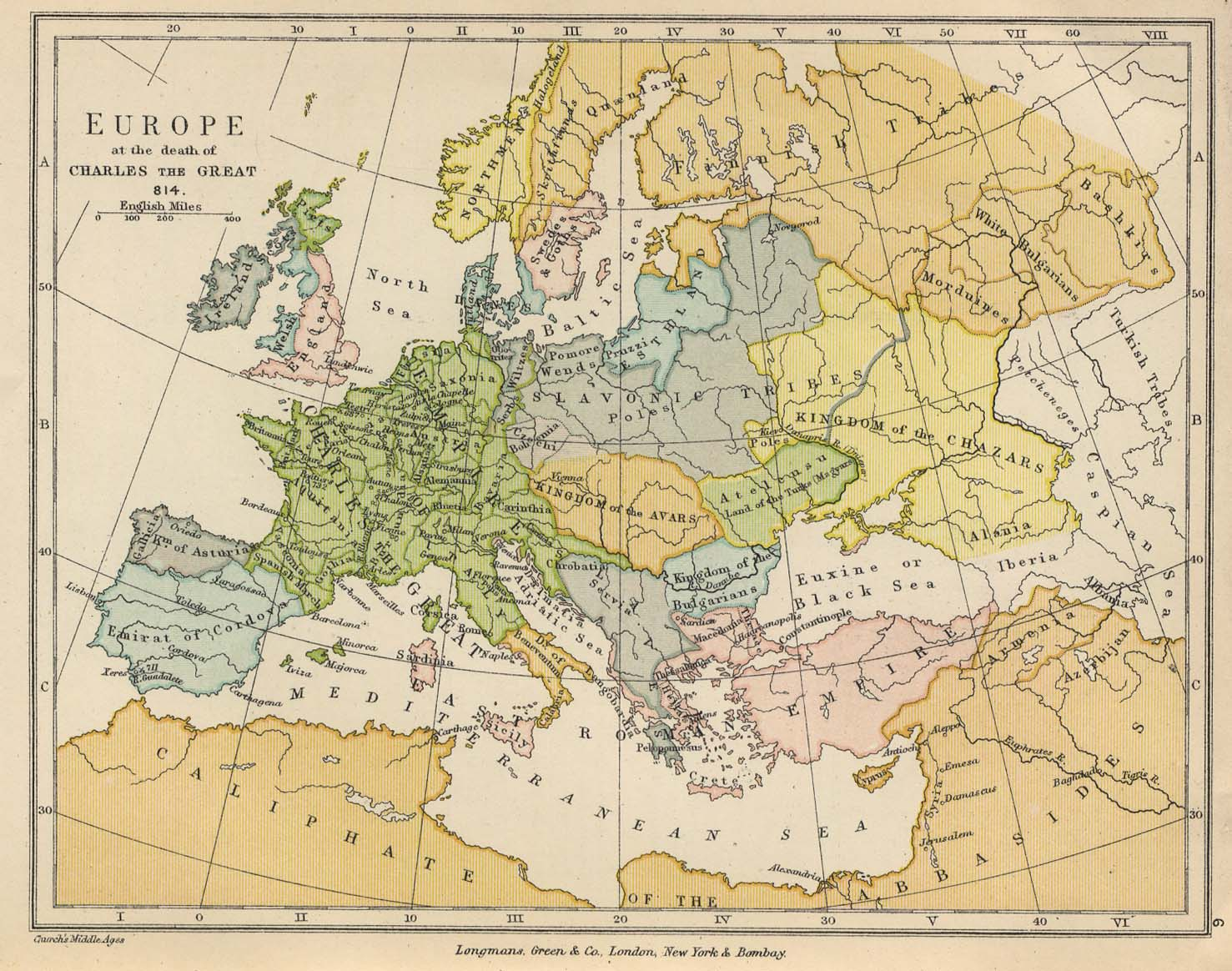 Europe in 814.